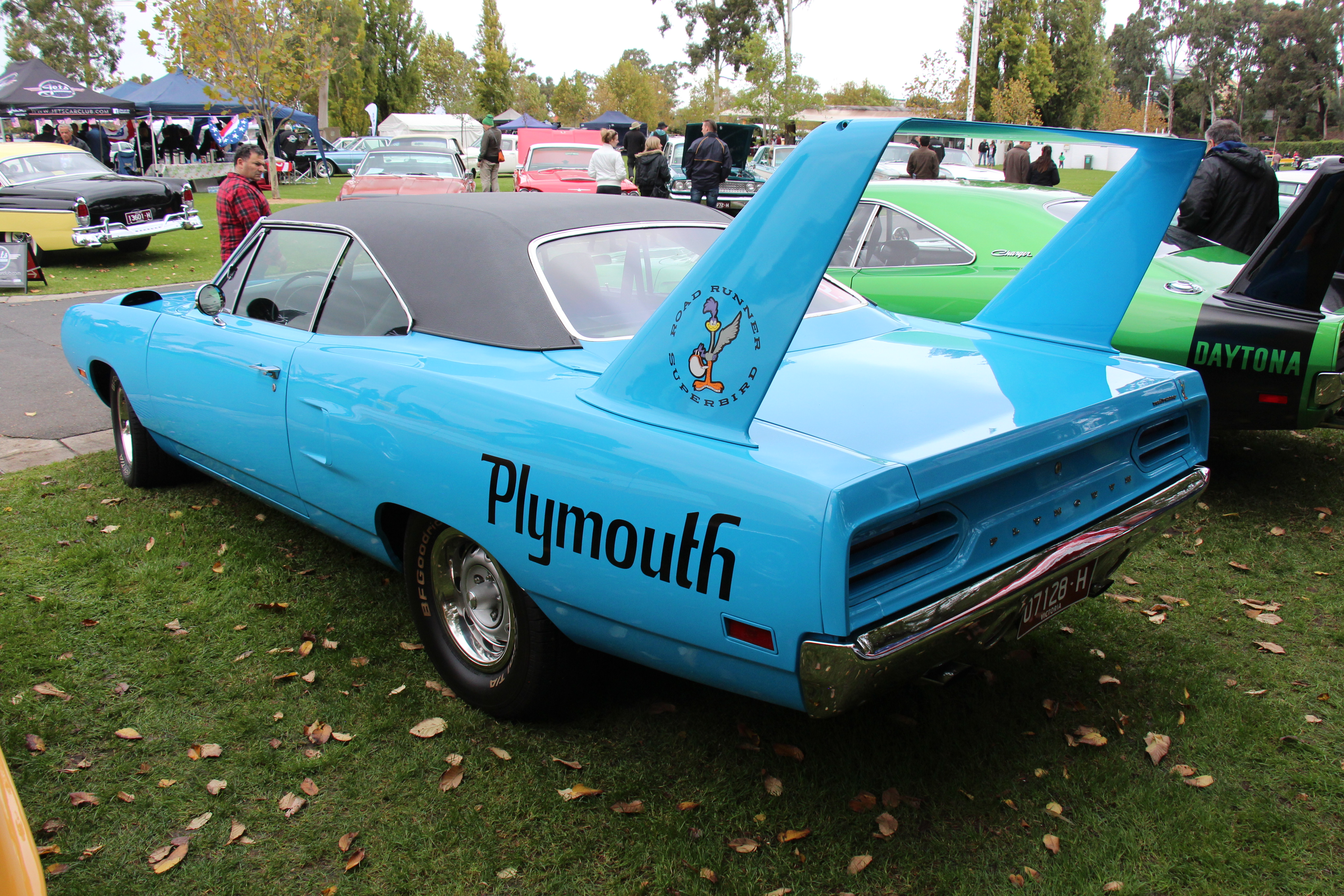 Corporation (Petty) Blue. From 1965 the B body Plymouths (same platform as the Dodge Coronet and Charger) were available in base model Belvedere and upmarket Satellite. Plymouth made performance versions of these cars, the Road Runner and the upmarket GTX. NASCAR's homologation requirement demanded that vehicles to be raced must be available to the general public The first of these big winged cars, the Dodge Daytona had a lot of sucess in 1969 in NASCAR against the Ford Torinos and Mercury Cyclones, so Plymouth built a similar car for 1970; The Superbird, it was based on the Road Runner but with 19inch long shark nose cap, rear facing fender scoops and 3ft high goal post rear wing (to give stability at 150mph) Superbird decals were placed on the outside edges of the spoiler vertical struts featuring a picture of the Road Runner cartoon character. Engines; 375hp Super Commando 440 4 barrel, 390hp Super Commando 6 barrel or 425hp 426 cu in Hemi. 1920 were made (93 Hemis). Today one of the most valuable muscle cars.